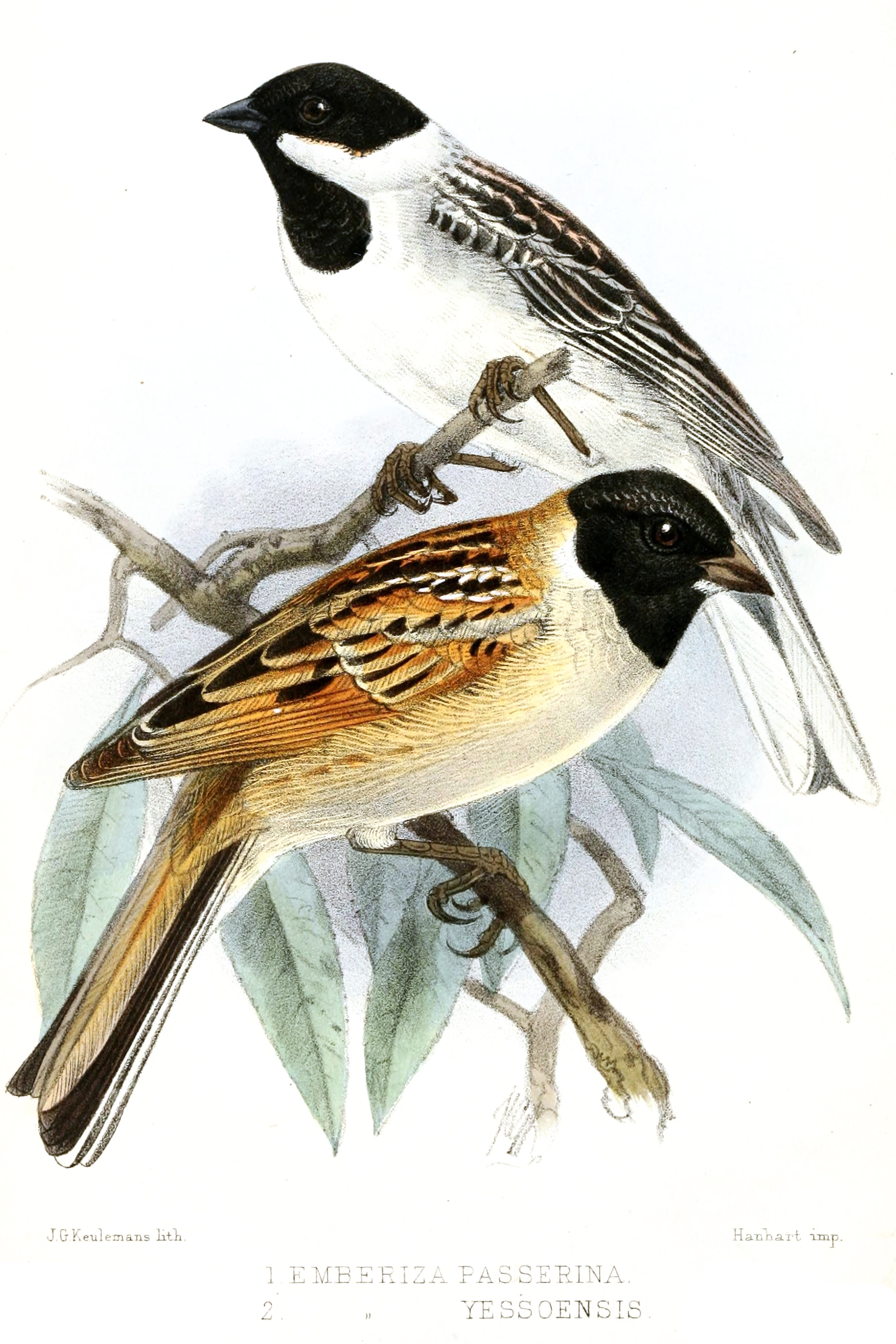 « Emberiza passerina » = Emberiza schoeniclus passerina (Subspecies of Common Reed Bunting) « Emberiza yessoensis » = Emberiza yessoensis (Japanese Reed Bunting)